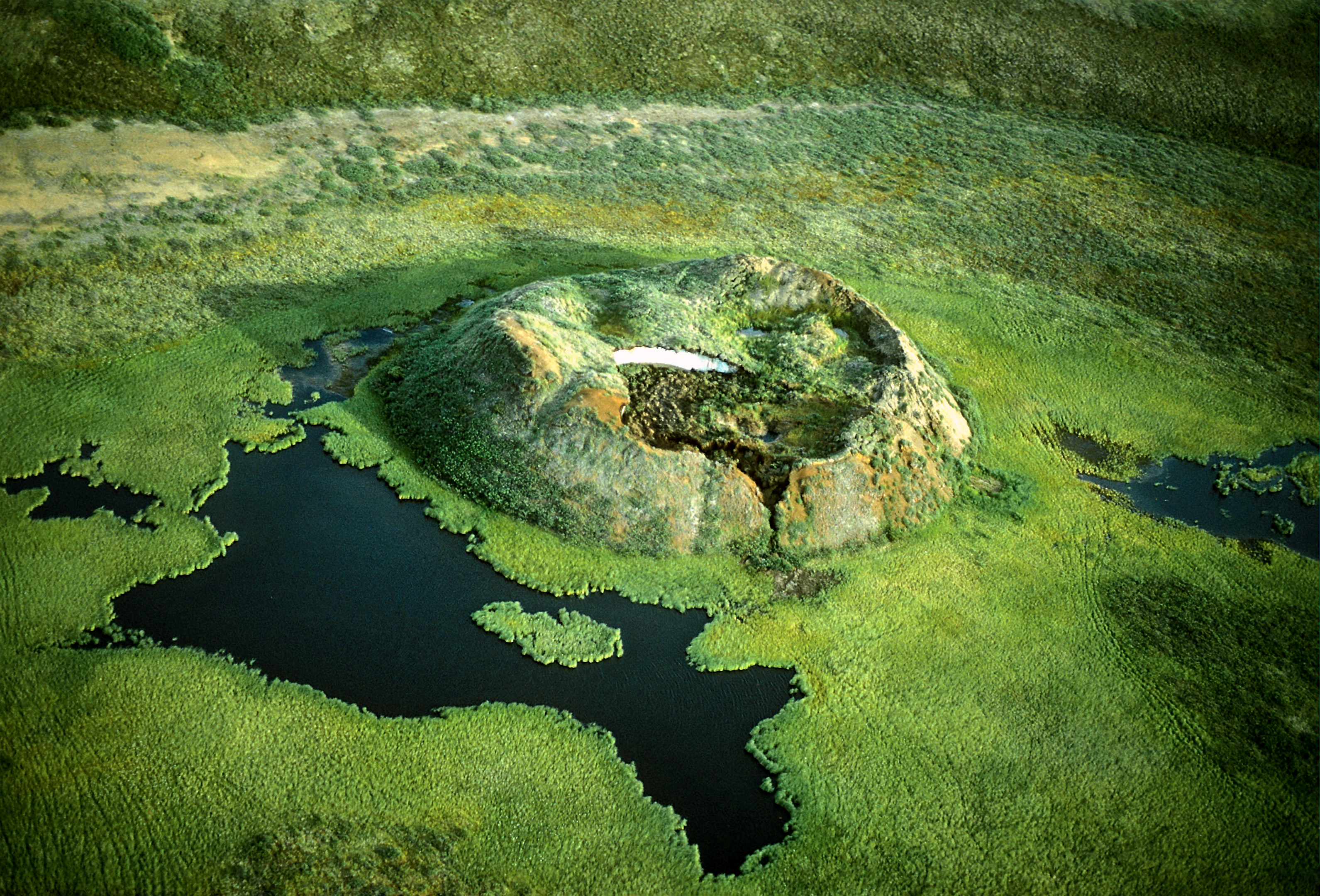 Collapsed pingo in the Mackenzie Delta with thick injection ice. The formerly drained lake can be outlined. Location: near Tuktoyaktuk. Photo: Lorenz King, August 8,1987